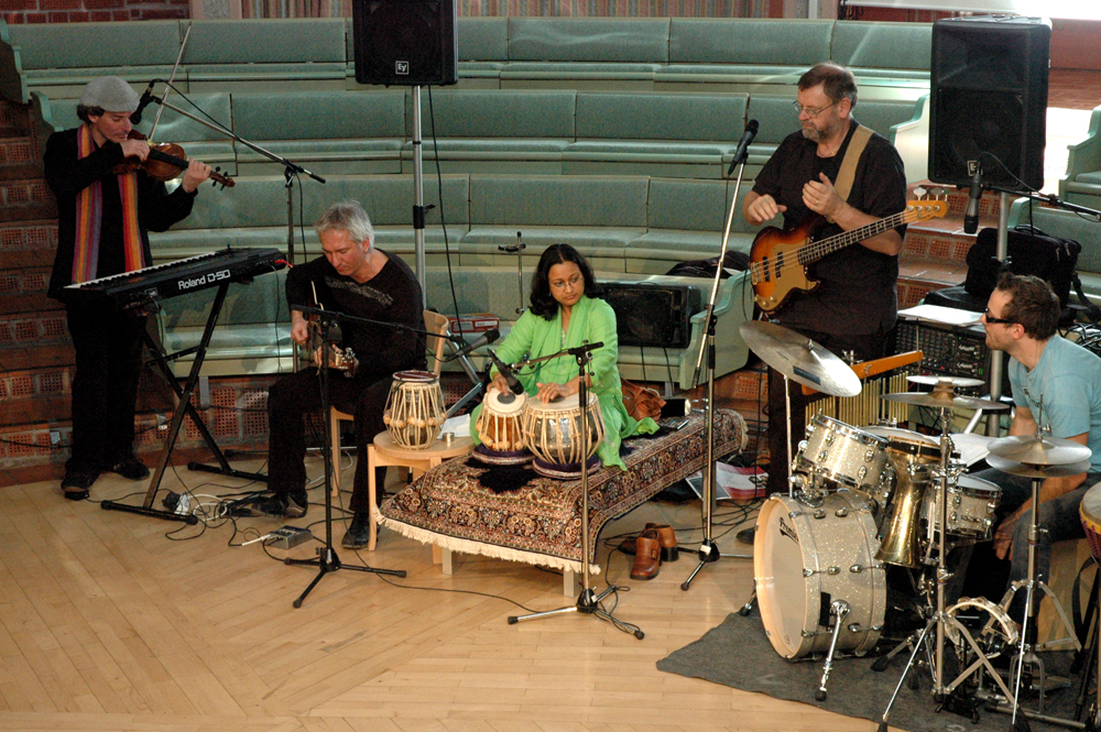 The multi-ethnic musical group Mynta based in Stockholm, Sweden performing for school children at the church in Kista, a suburb of Stockholm. Photograph by Henryk Kotowski in November 2006.